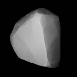 3D convex shape model of 644 Cosima, computed using light curve inversion techniques. J. Hanuš, J. Ďurech, M. Brož, B. D. Warner (June 2011). "A study of asteroid pole-latitude distribution based on an extended set of shape models derived by the lightcurve inversion method". Astronomy and Astrophysics 530: A134. ISSN 0004-6361. arXiv